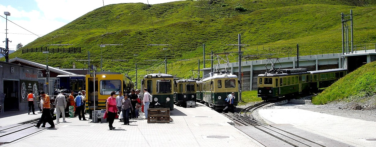 Kleine Scheidegg